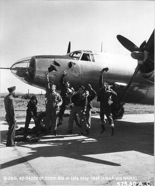 Members of 320th Bombardment Group at the end of World War II, tossing caps.